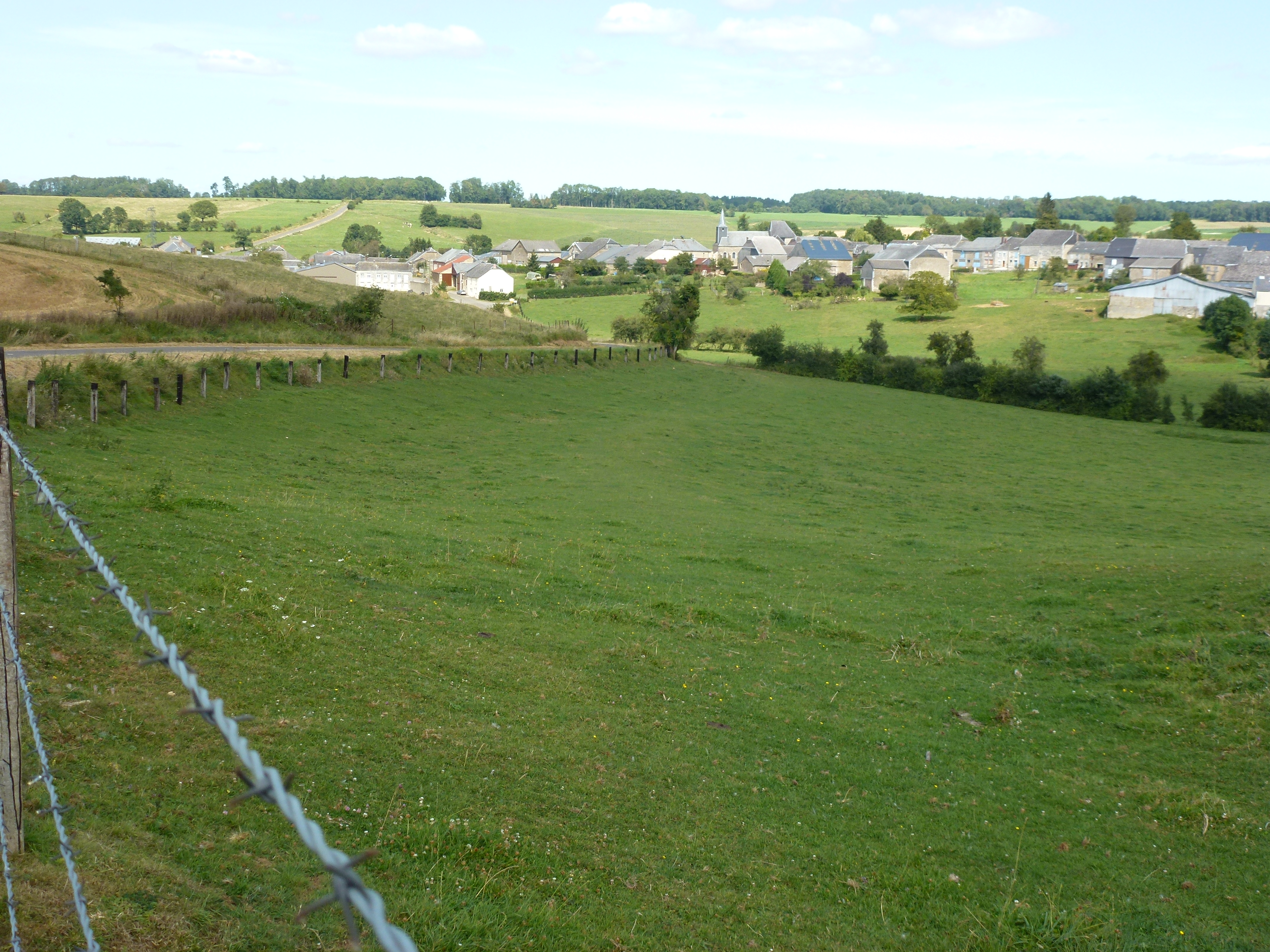 Flaignes (Ardennes) paysage avec vue du village